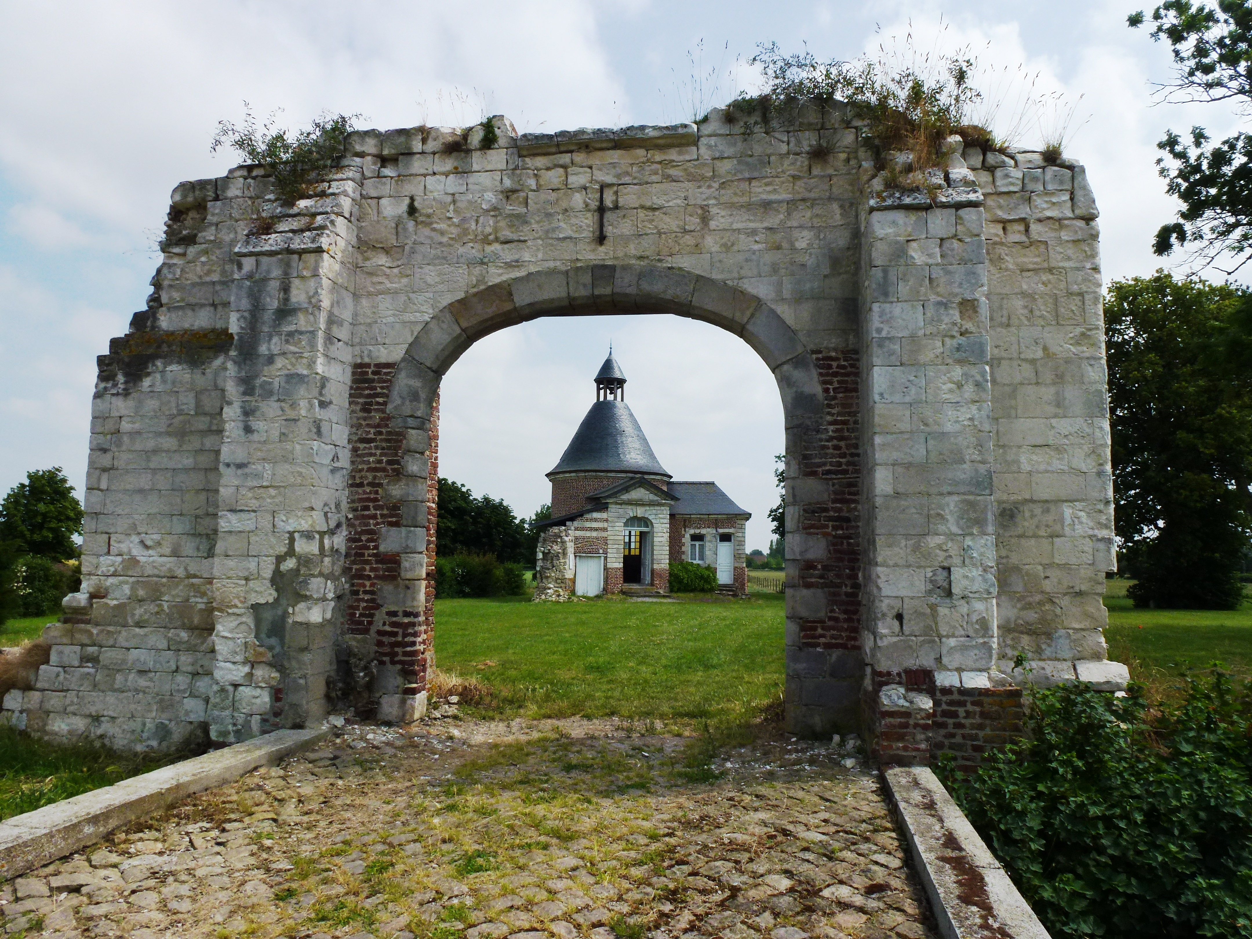 Busnes (Pas-de-Calais) château du Quesnoy, vestiges et chapelle